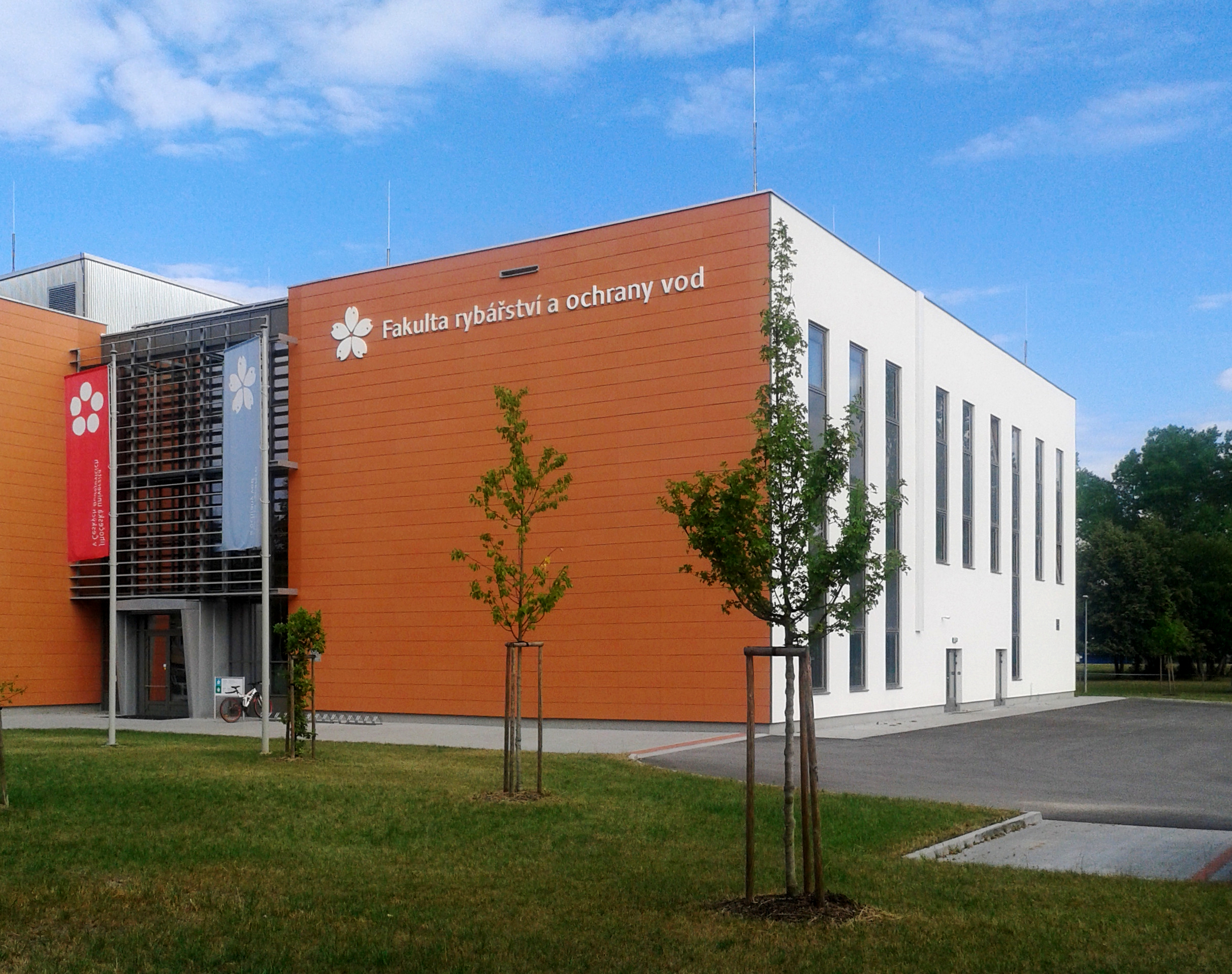 One of the buildings used by the Faculty of Fisheries and Protection of Waters of the University of South Bohemia in České Budějovice, Czech Republic, Na Sádkách Street No 1780.